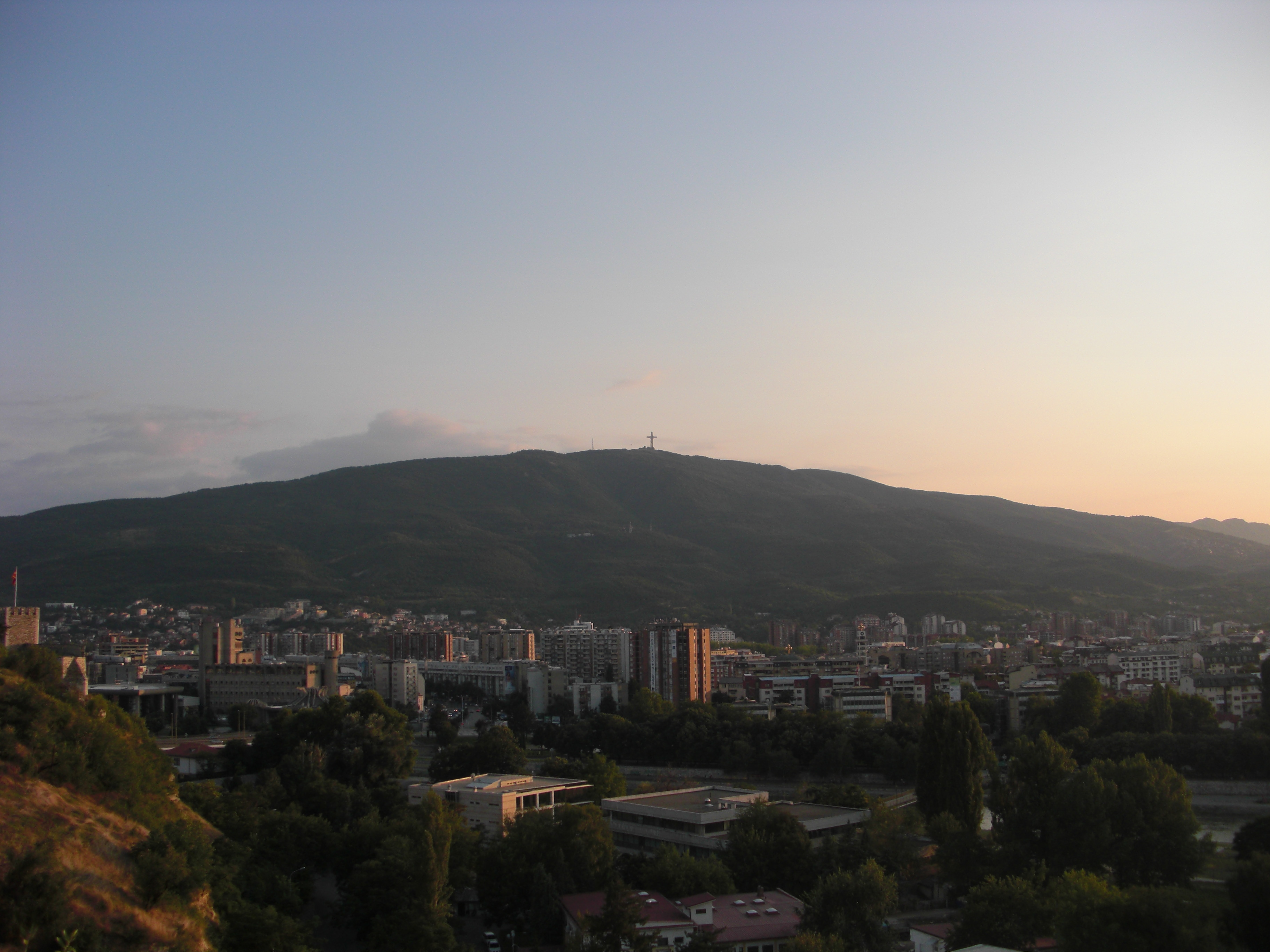 Skopje, capital of Macedonia